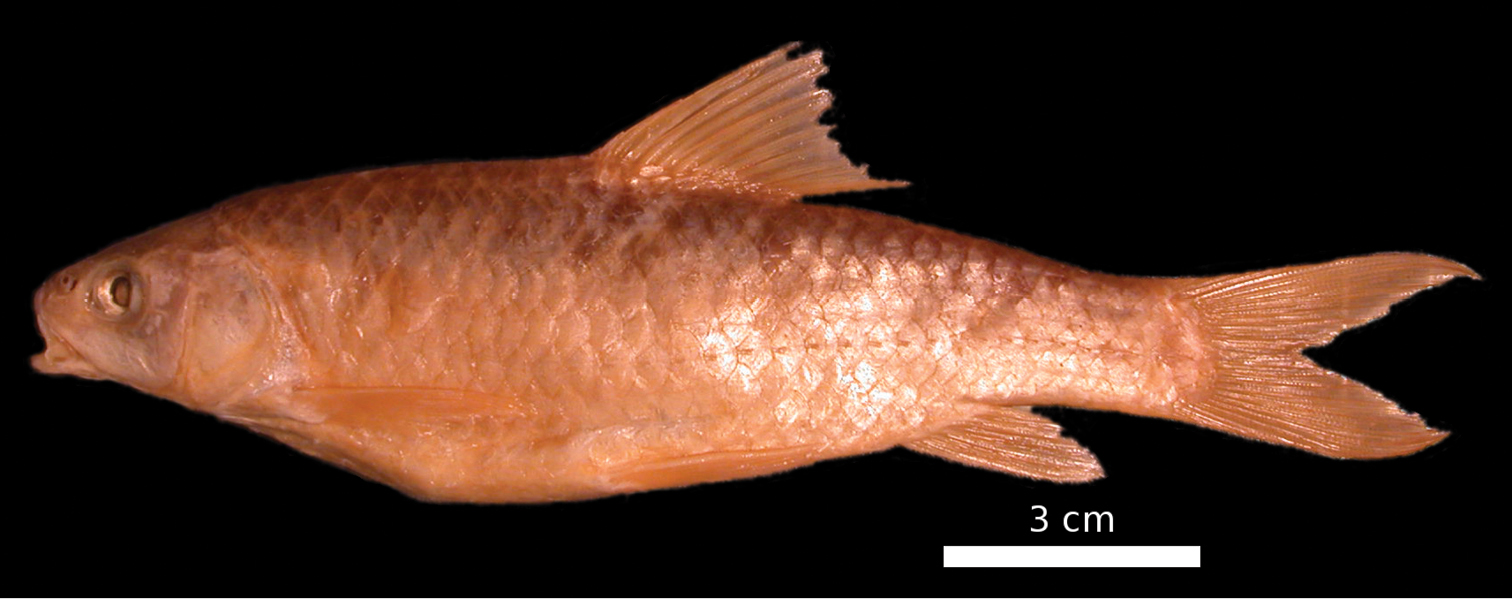 Carasobarbus chantrei, paralectotype (MNHN A-3939) from Orontes at Ḩamāh.